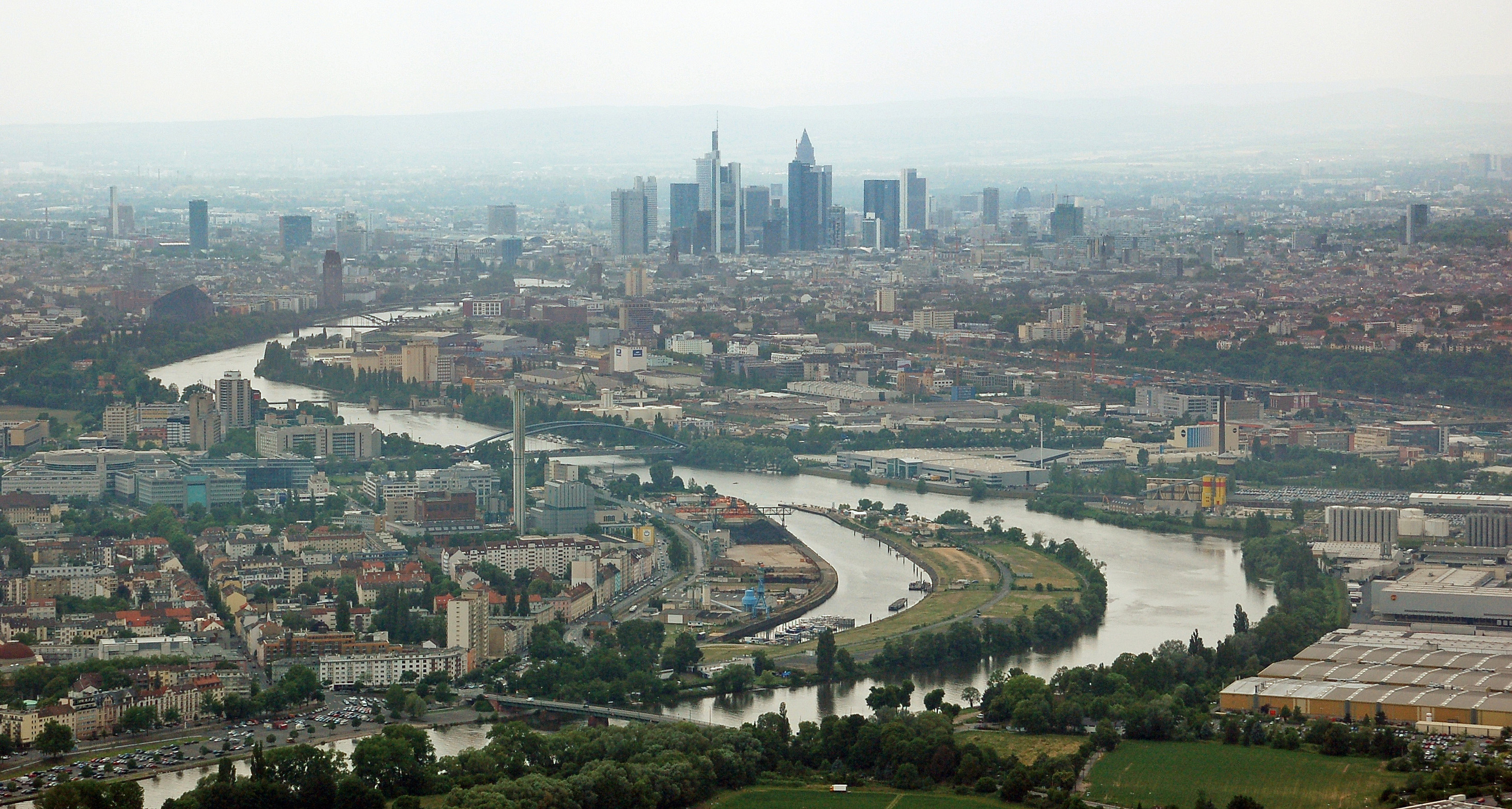 Aerial photograph of Offenbach (foreground, to the left of the Main River) and Frankfurt/Main, Hessen, Germany